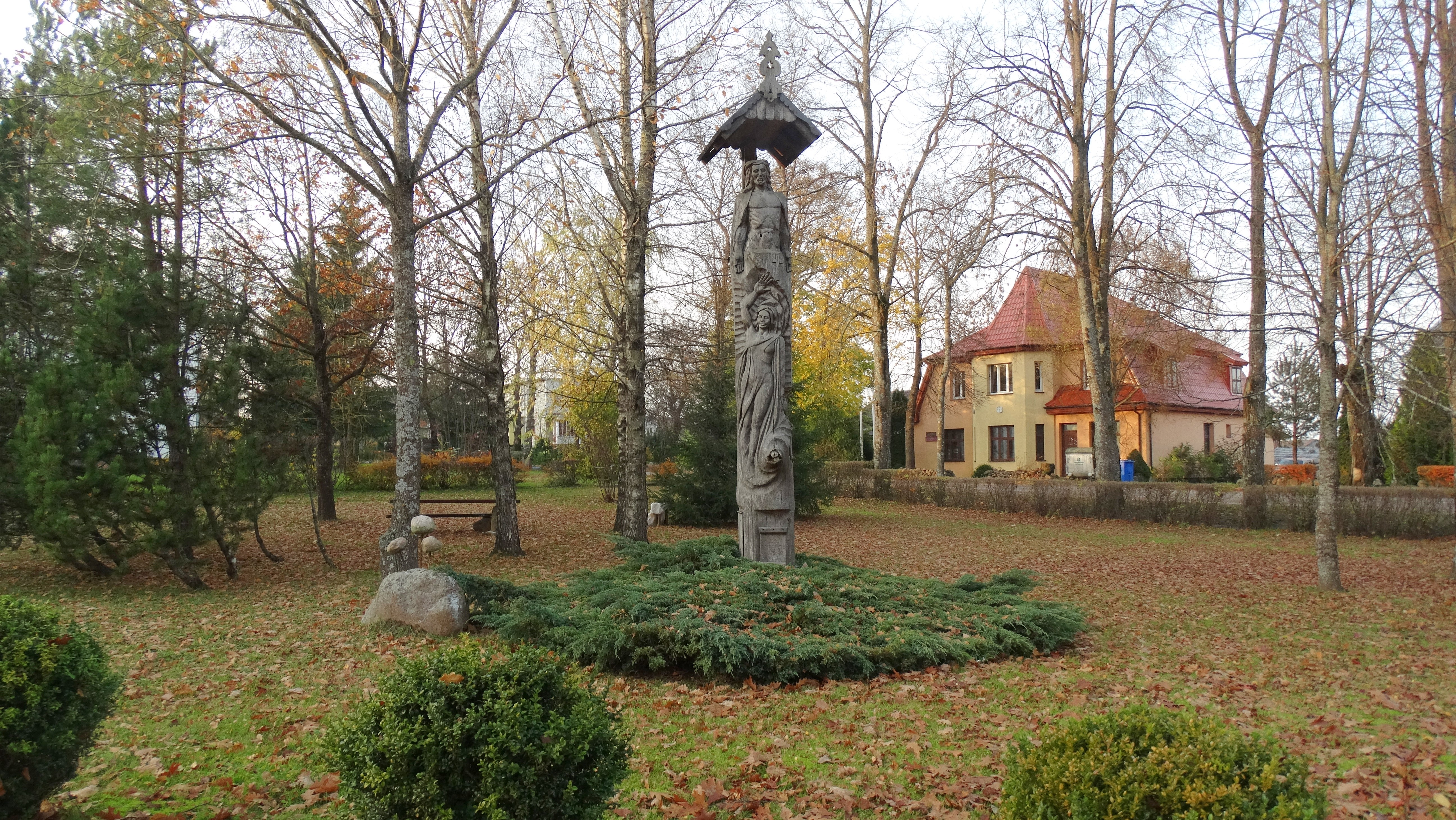 Natkiškiai, Pagėgiai Municipality, Lithuania